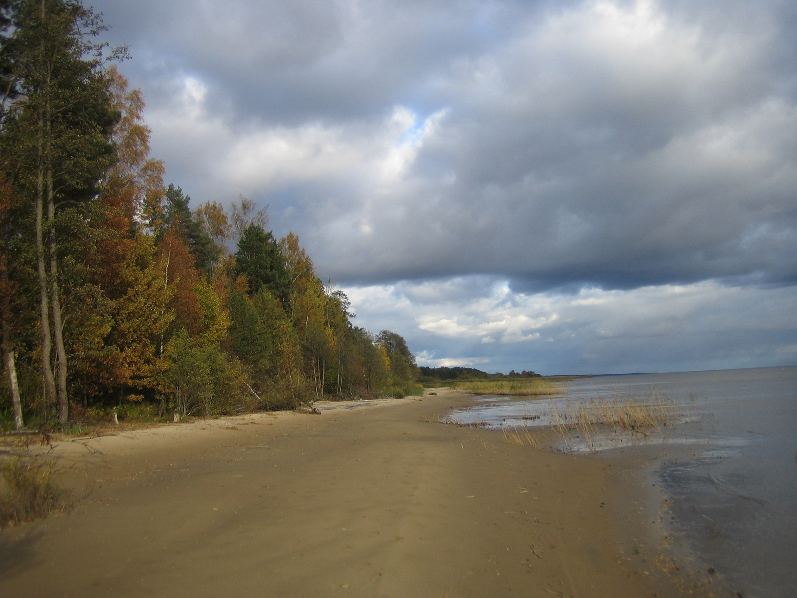 Beach of Peipsi Lake near Rannapungerja village